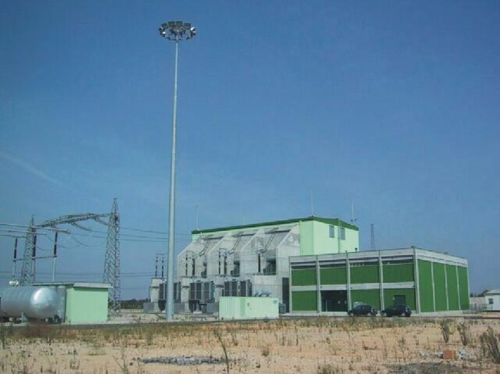 Galatina HVDC static inverter in Italy, part of HVDC Italy–Greece